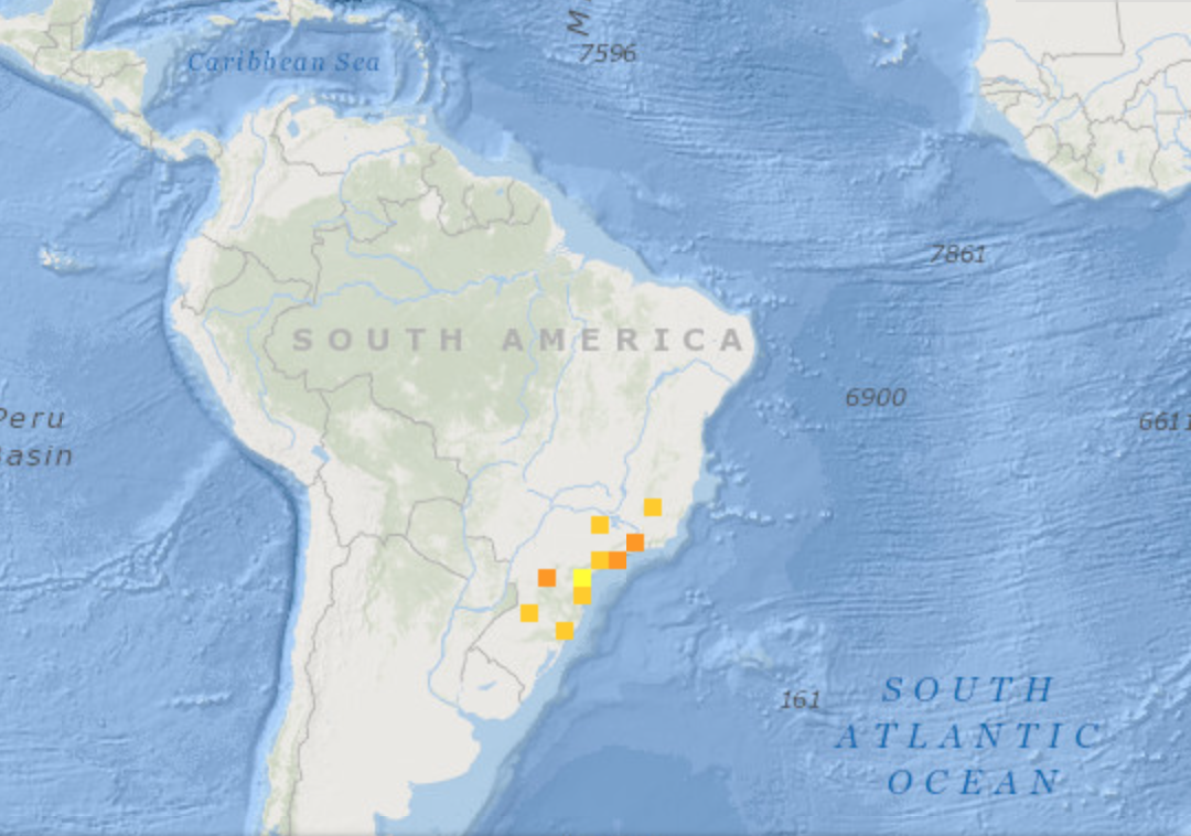 Region Map of bee species Melipona bicolor